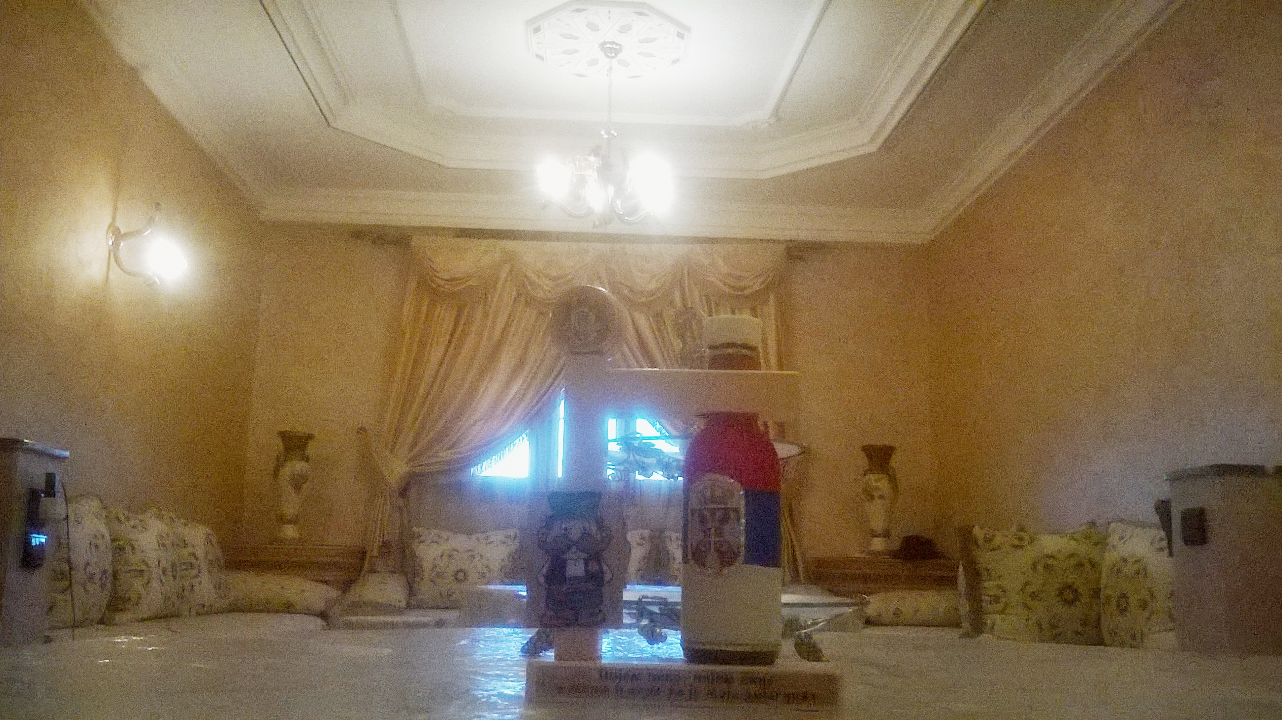 Rakia or rakija in special bottle, as the national drink of Serbia